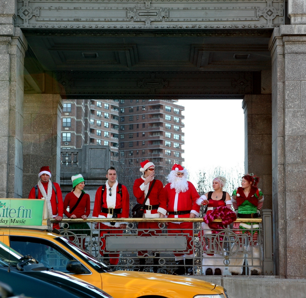 Santas in the midst of traffic jam during Santacon 2006.